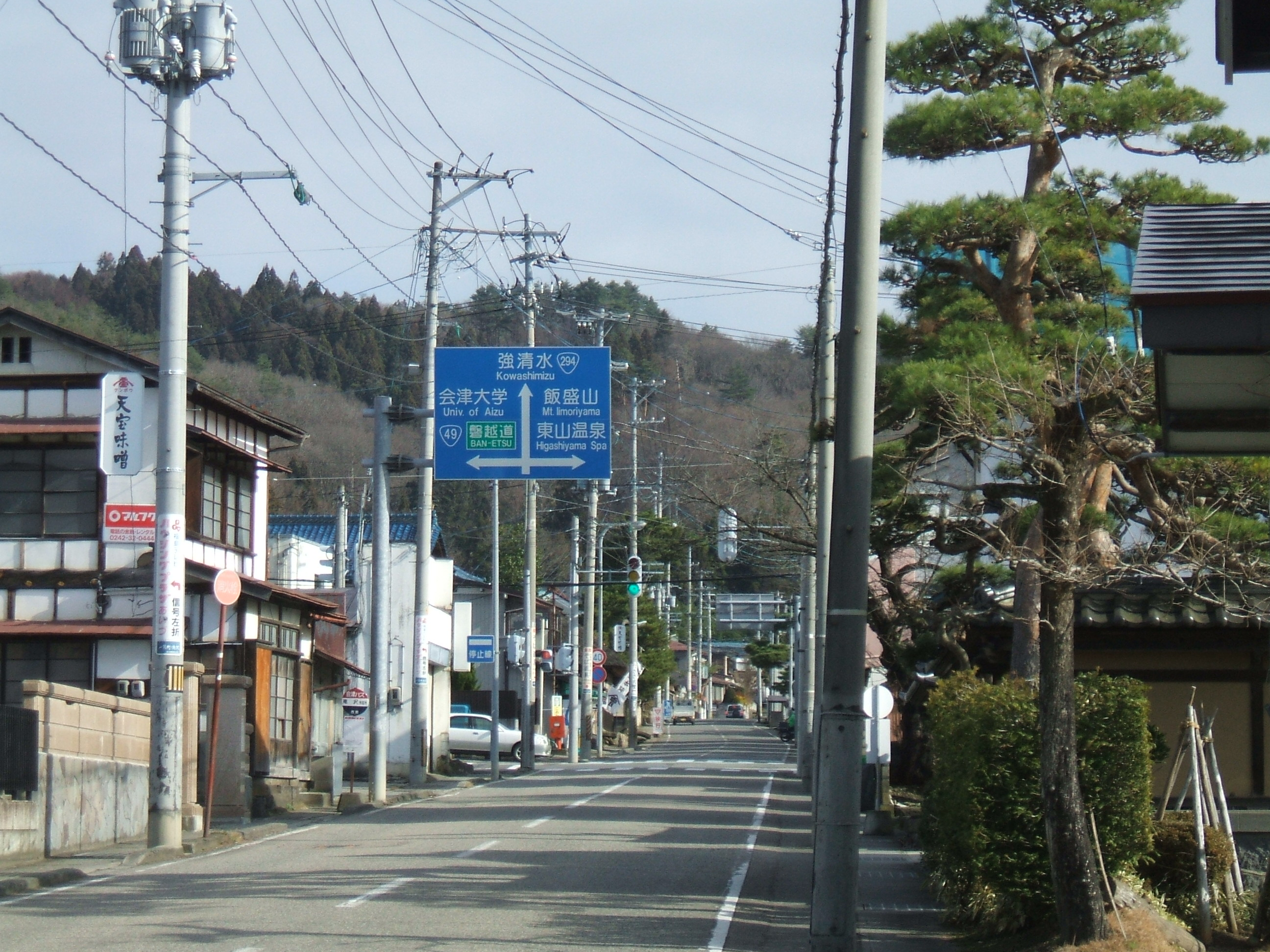 A landscape of "Takizawa-Toge" of Aizuwakamatsu, Fukushima.